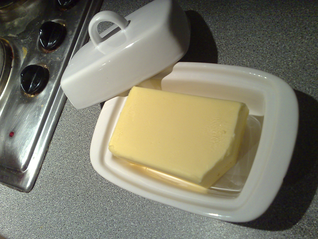 I'm officially an adult. I have a butter dish.